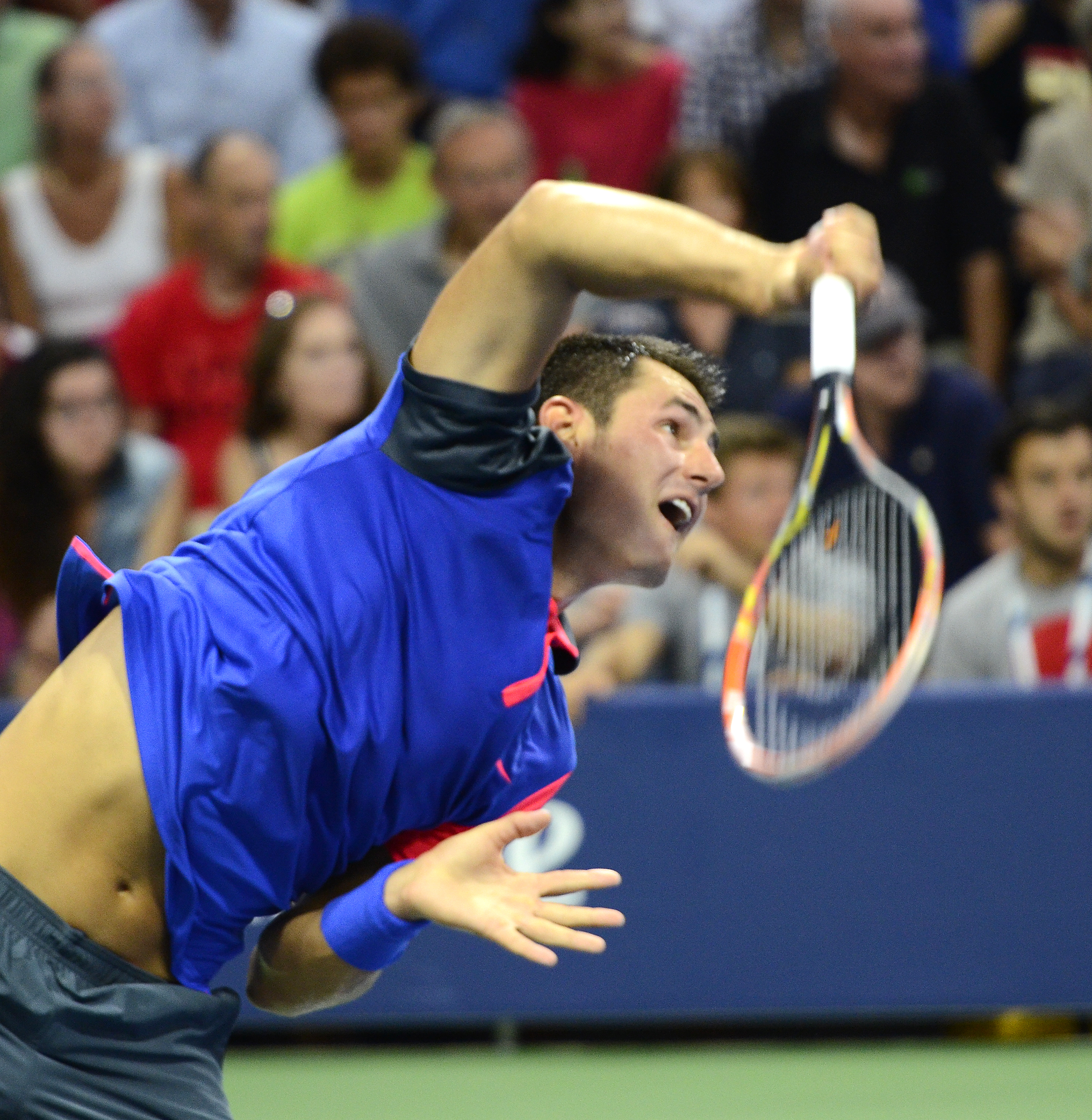 August 26, 2014 Queens, NY Bernard Tomic (AUS) def. Dustin Brown (GER)